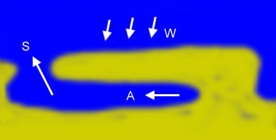 Beach and littles bays, fotographed during low tide. During high tides they give rise to unexpected currents near the beach which may confuse swimmers. See article strand Relatead picture: image:strandsandrp.jpg Own work. Anton 2006 gez steffi :D